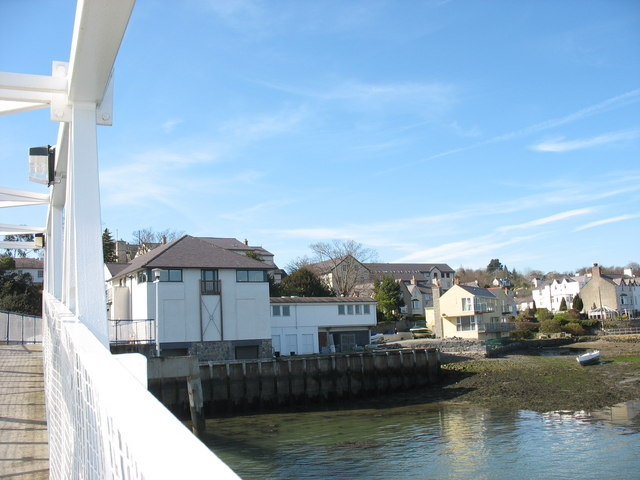 The UNCW School of Ocean Science